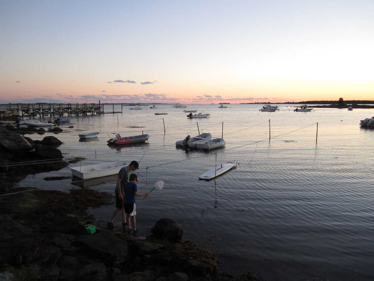 Crabbing at Boulder Beach, Lords Point, 2013